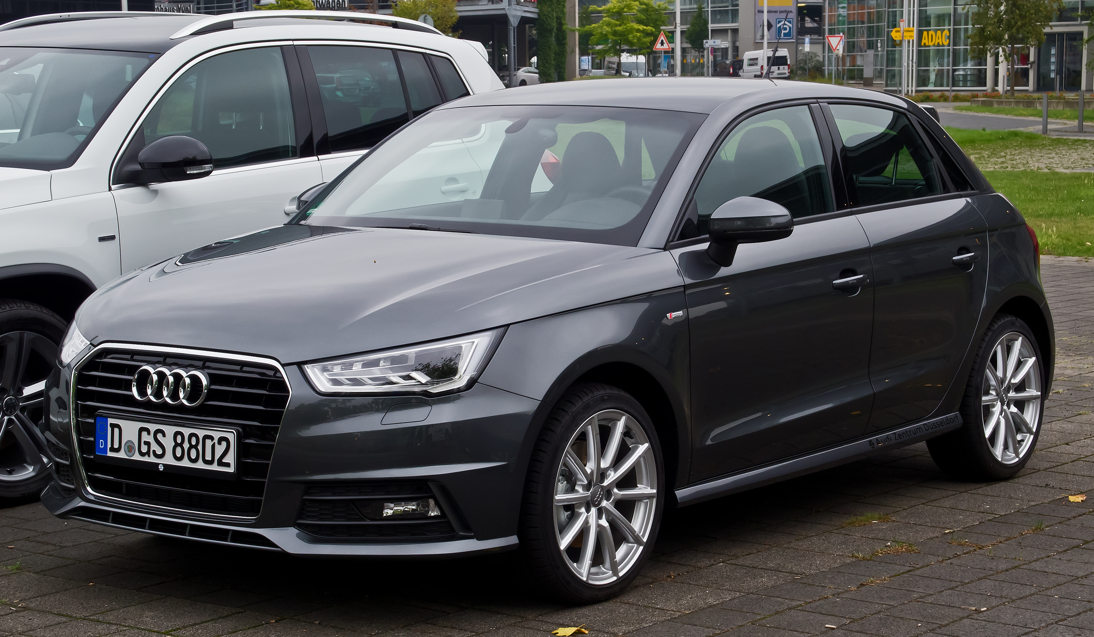 Audi A1 Sportback 1.4 TFSI S-line (Facelift)